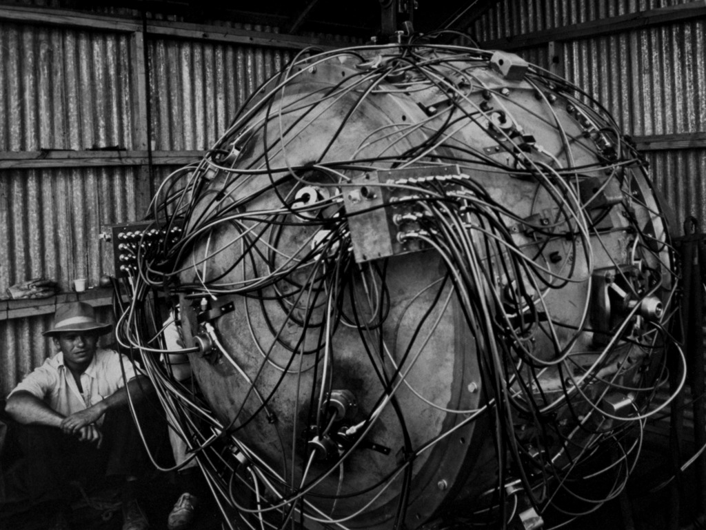 Unidentified man sits next to The Gadget, the nuclear device created by scientists to test the world's atomic bomb, at the Trinity Site in Alamogordo, New Mexico.